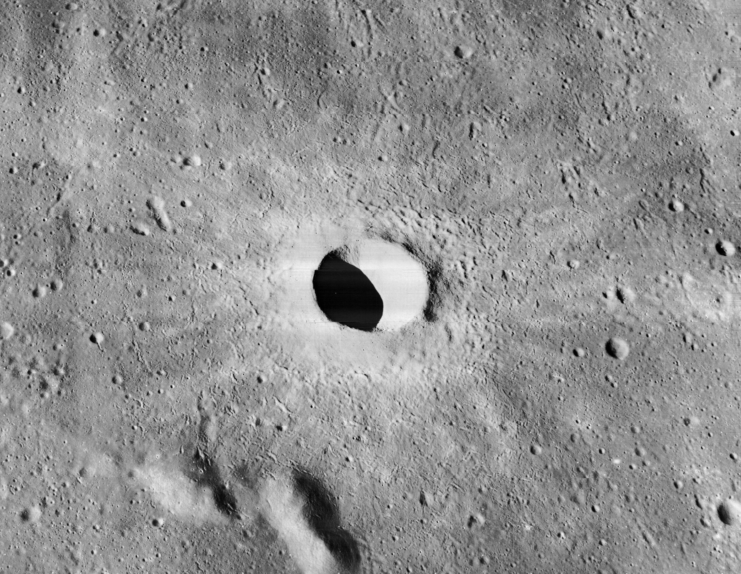 Oblique view of Mösting C crater, near Mösting, on the moon, facing south.